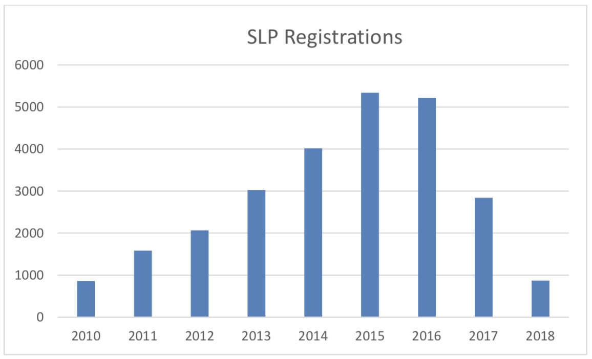 Graph of new SLP registrations created by Bellingcat.